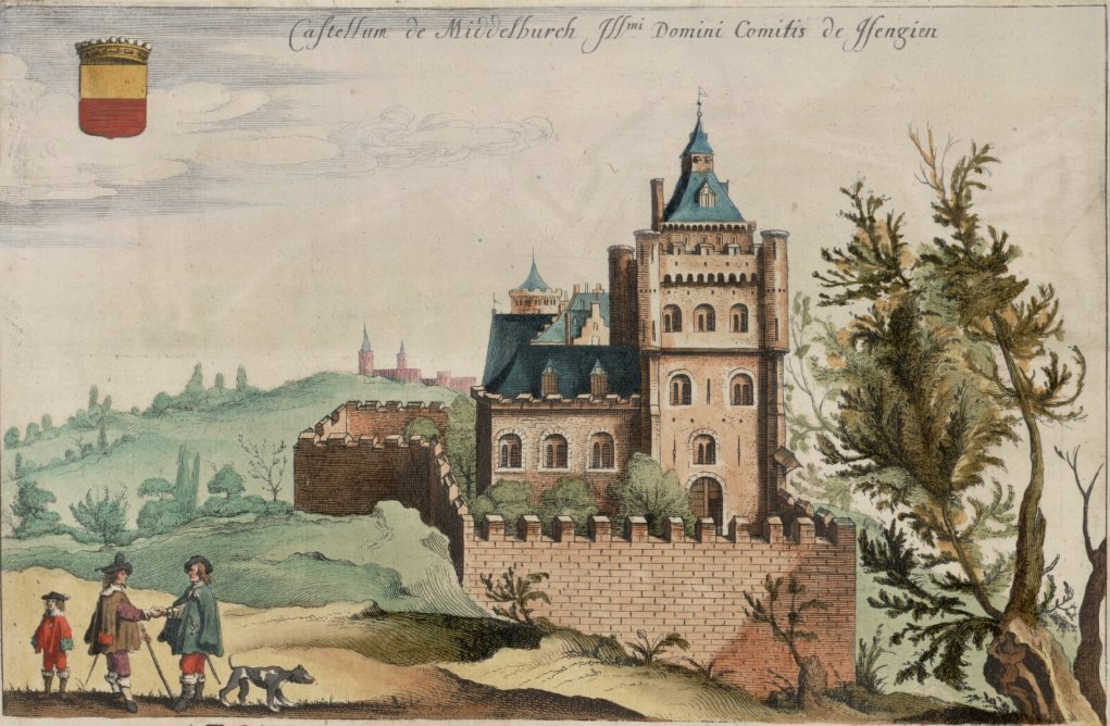 Engraving of Middelburg Castle, built for Pieter Bladelin in 1448-1450, from Flandria Illustrata (1641) Inscription: Castellum de Middelburch Domini Comitis de Isengien